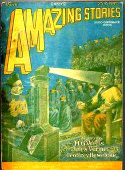 Cover of the pulp magazine Amazing Stories (March 1928, vol. 2, no. 12).